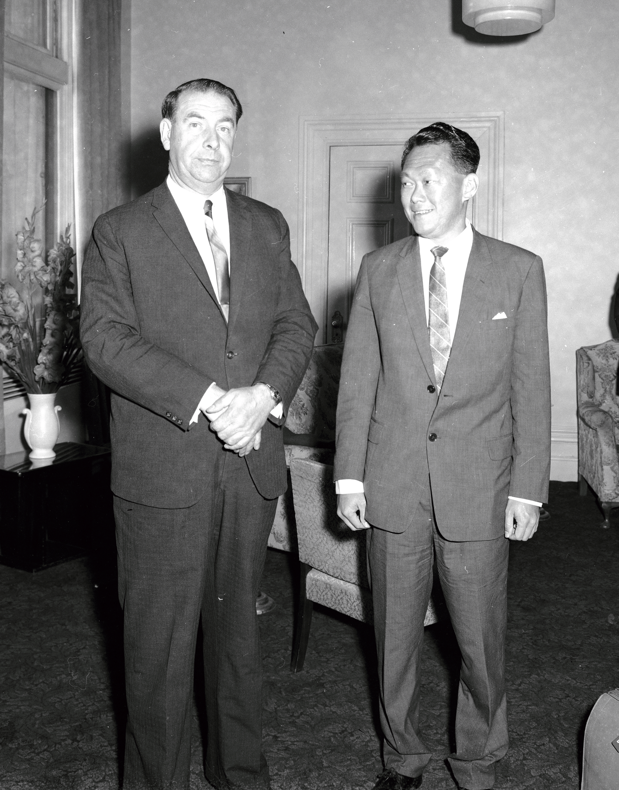 Mr. Lee Kuan Yew, Prime Minister of Singapore, at a Mayoral reception